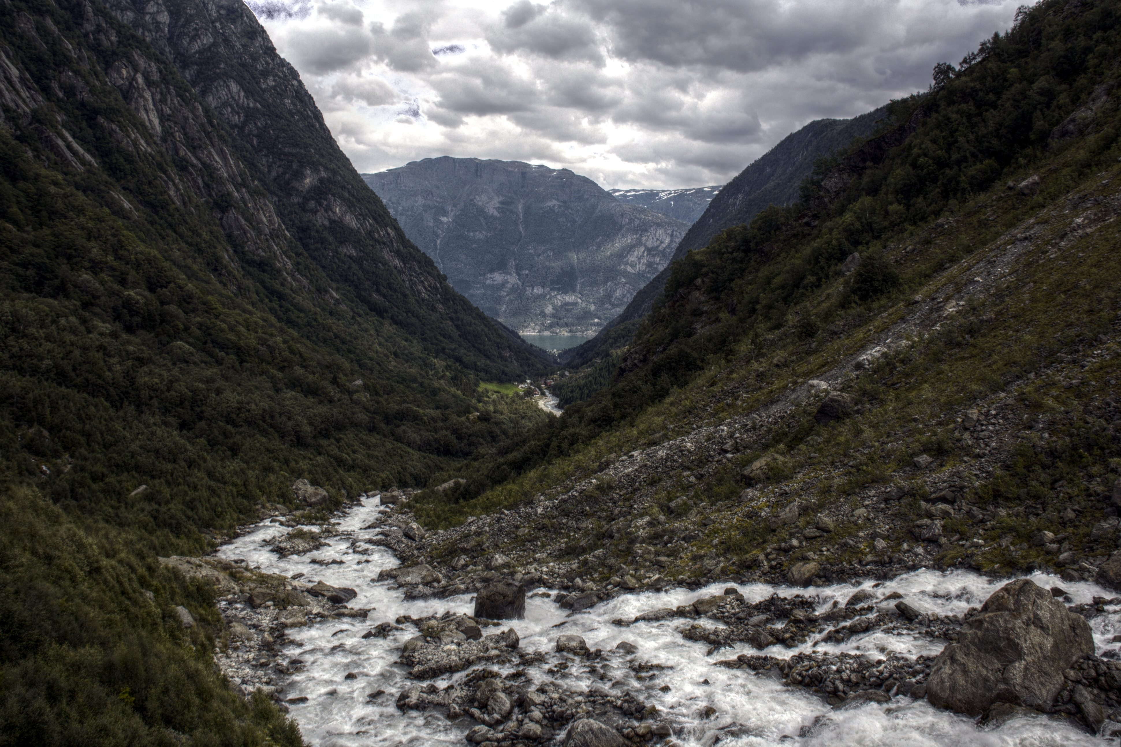 Looking down from Folgefonna Glacier (HDR), Buar glacier arm at Buar valley (Buerdalen) towards Sandven lake (Sandvinvatnet)